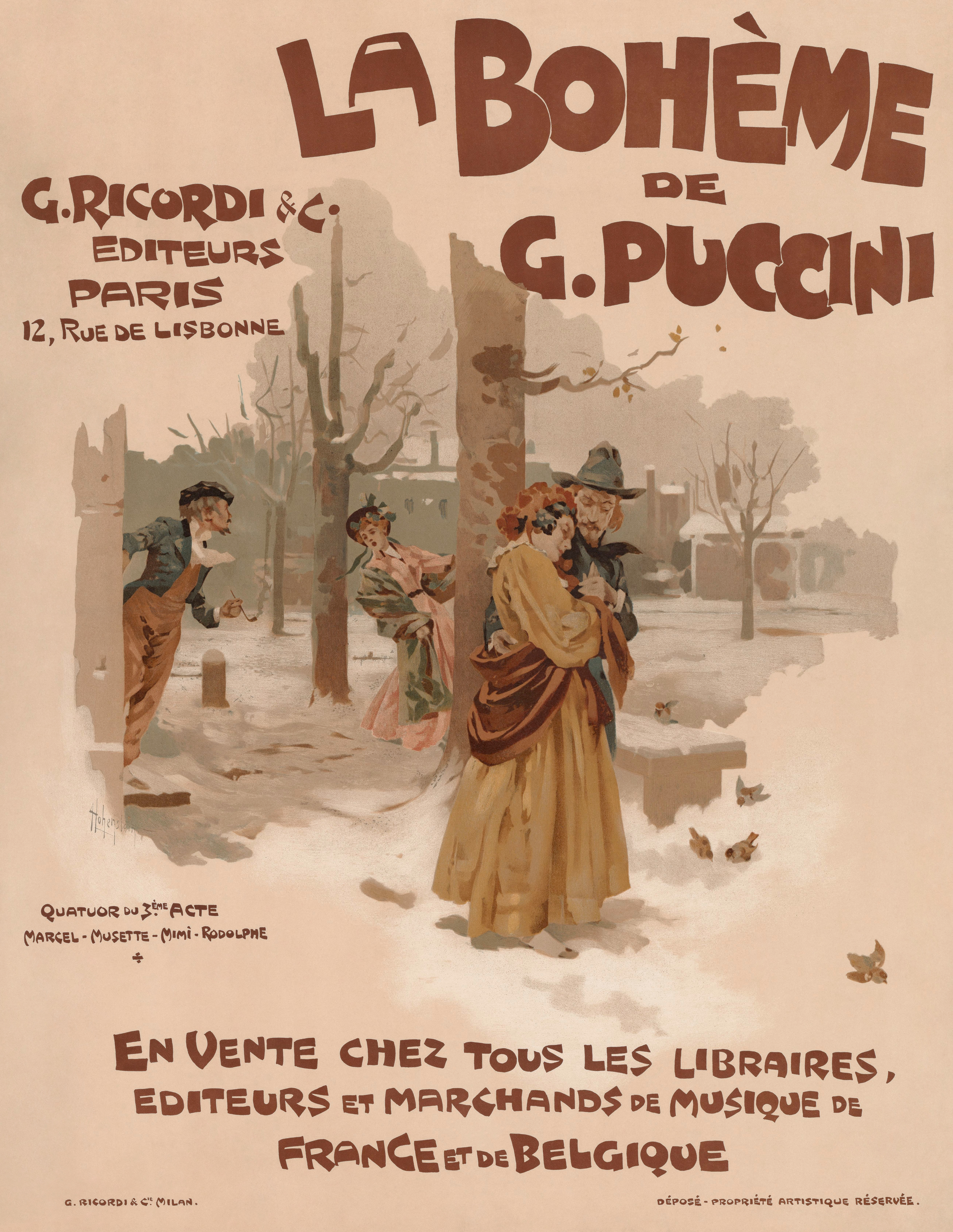 Advertisement for the music score of Giacomo Puccini's La bohème, showing the quartette in the third act between Marcello, Musetta, Mimi, and Roldolpho.